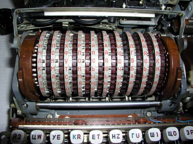 Closeup of the rotor stack inside a FIALKA cipher machine. Source: [1]. This image is copyright Professor Thomas B. Perera. The author agreed to license the photograph under the terms of the GFDL after an email exchange with User:Matt Crypto. More images of FIALKA, as well as other cipher machines, are available at Perera's online crypto museum: [2]. (Note that these images are not necessarily available under the GFDL license).